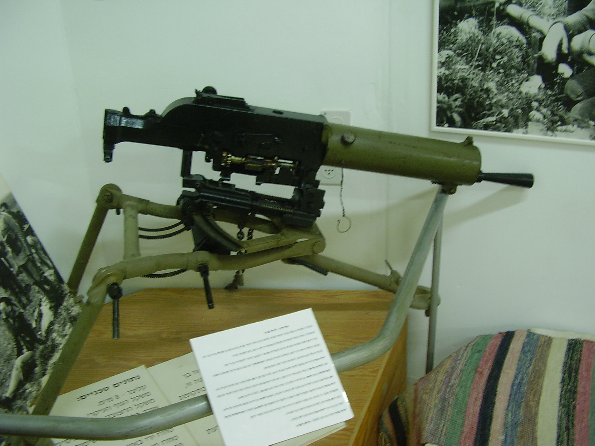 machine-gan schwarzlose in kibbutz hanita מכונת יריה "שוורצלוזה" במוזיאון חניתה